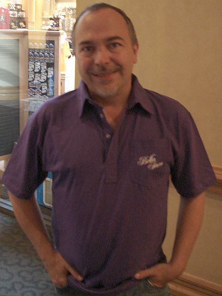 Photograph of Peter Adkison, founder of Wizards of the Coast and owner of Gen Con. The photo was taken at Gen Con Indy 2007 on 2007-08-19. Williams is standing on the first floor of the Westin hotel in downtown Indianapolis, near the lobby.